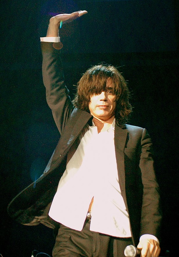 Jean Michel Jarre live in Milan, private concert for About J jewellery event, March 1, 2008